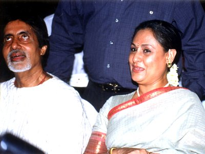 ABCL-HMV party